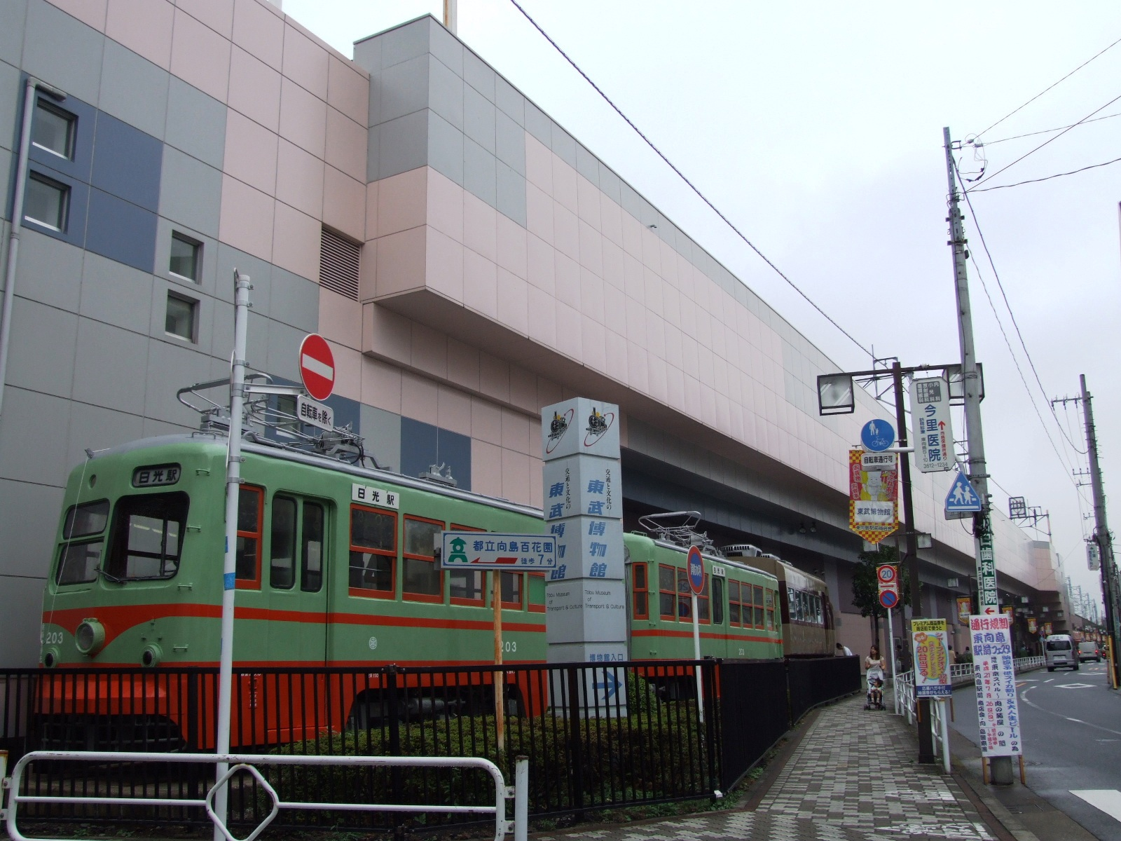 Tobu Museum,Sumida,Tokyo,Japan